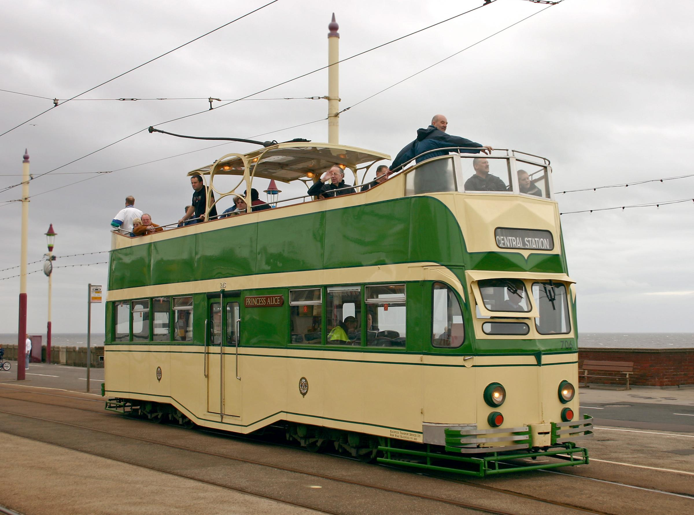 The Tram named Princess Alice at Bispham